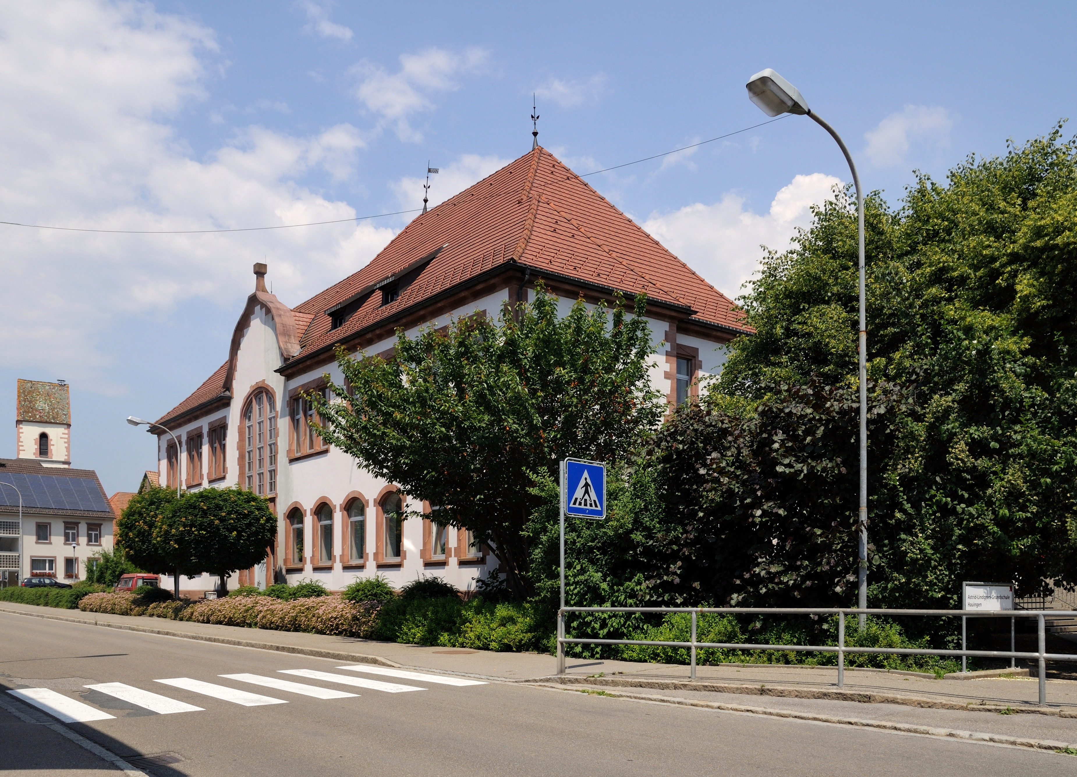 Hauingen: Astrid-Lindgren-School